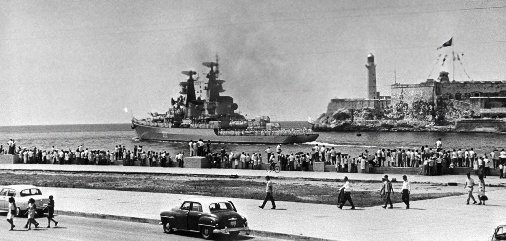 “Soviet warships in Cuba.”. Soviet warships leaving the Havana port after their visit to Cuba.